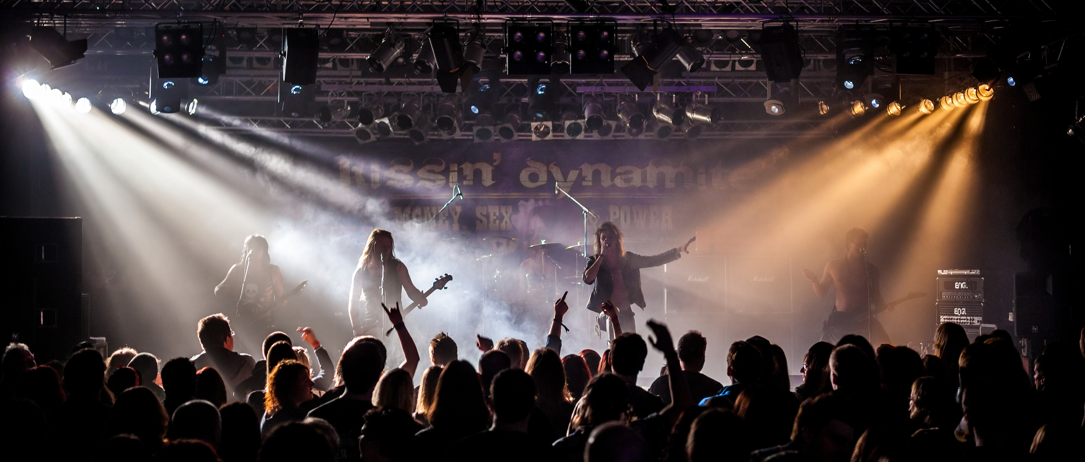 Kissin' Dynamite at the Iron Bones Rocknacht 2013